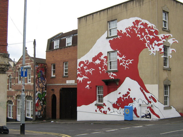 Street art, Hillgrove Street Just off Jamaica Street, Stokes Croft.